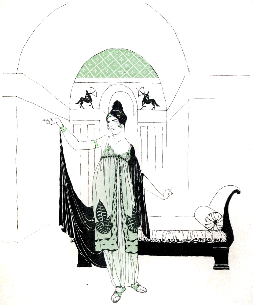 "Mme. Geraldine Farrar in Greek Costume as Thaïs" / Thelma Cudlipp frontispiece Woman as Decoration / Emily Burbank (New York: Dodd, Mead and Company, 1917) image slightly altered (color, levels)